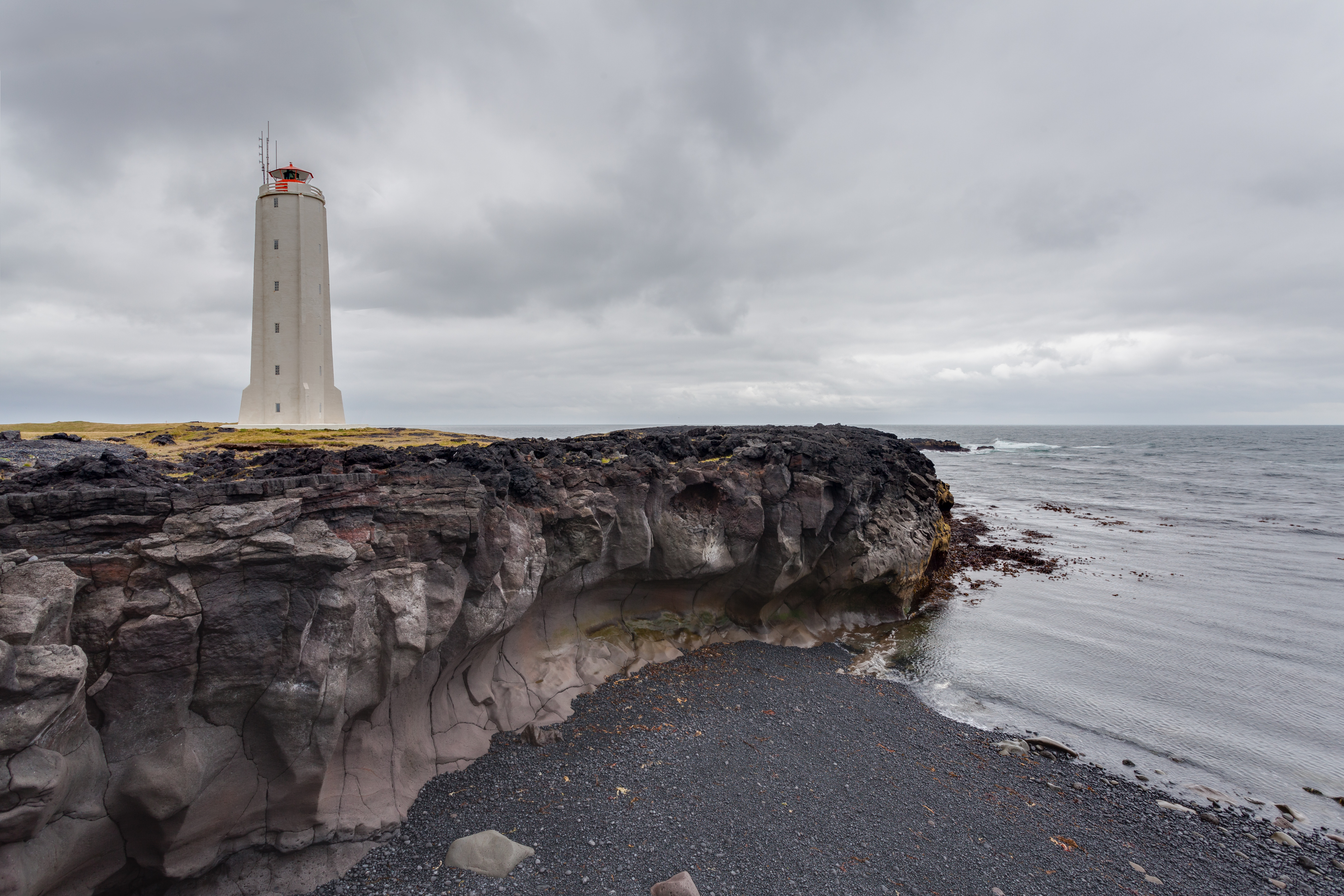 Malarrif lighthouse, Vesturland, Iceland